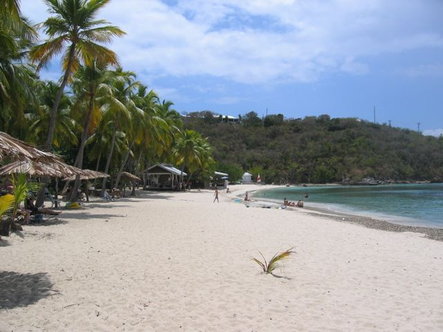 A beautiful view of Honeymoon beach on Water Island in the United States Virgin Islands.